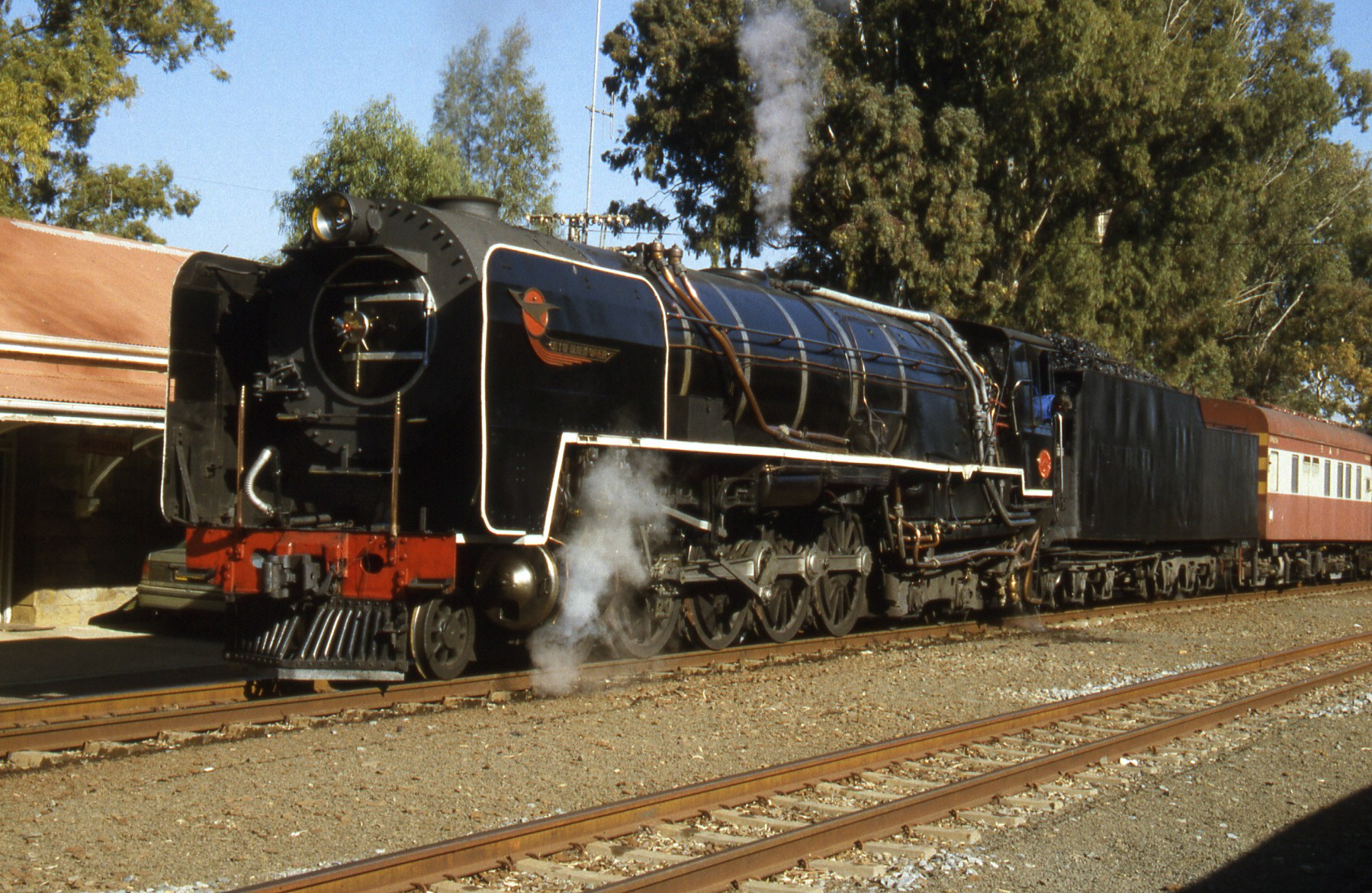 SAR Class 25NC 3410(4-8-4) NBLLocation: Sannaspos